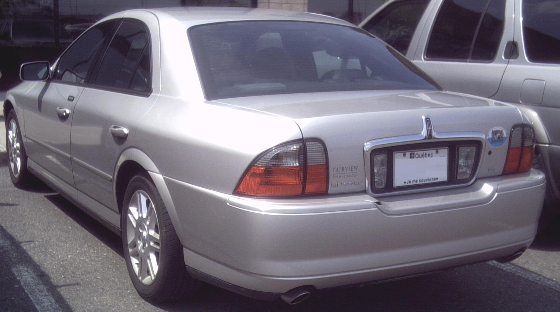 2003-2005 Lincoln LS photographed in Pointe-Claire, Quebec, Canada.